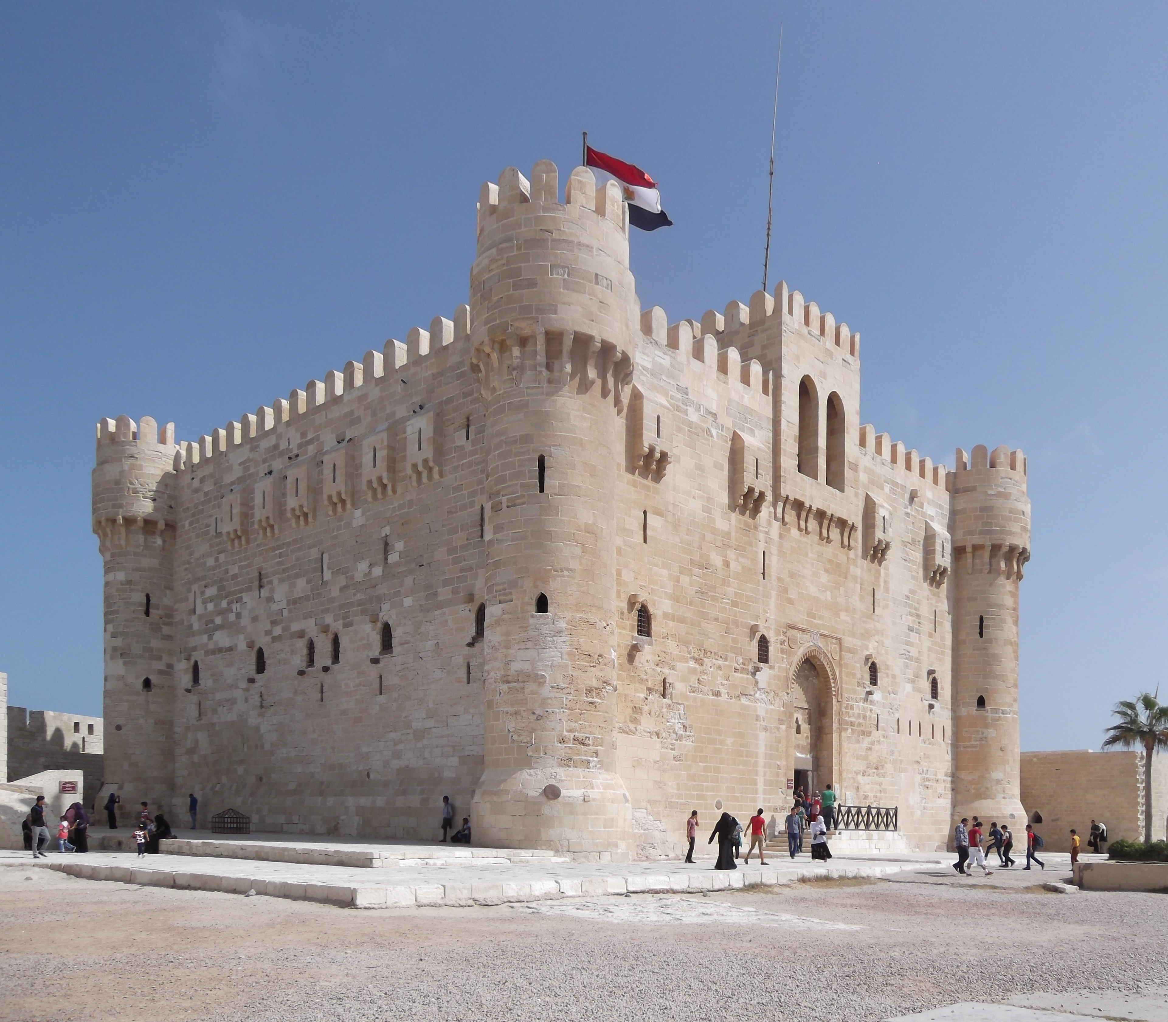 Citadel of Qaitbay